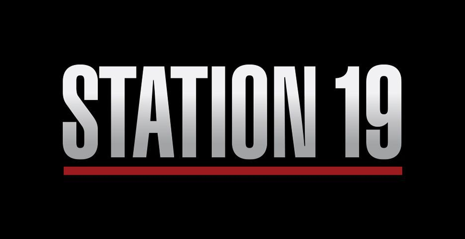 Logo of Station 19